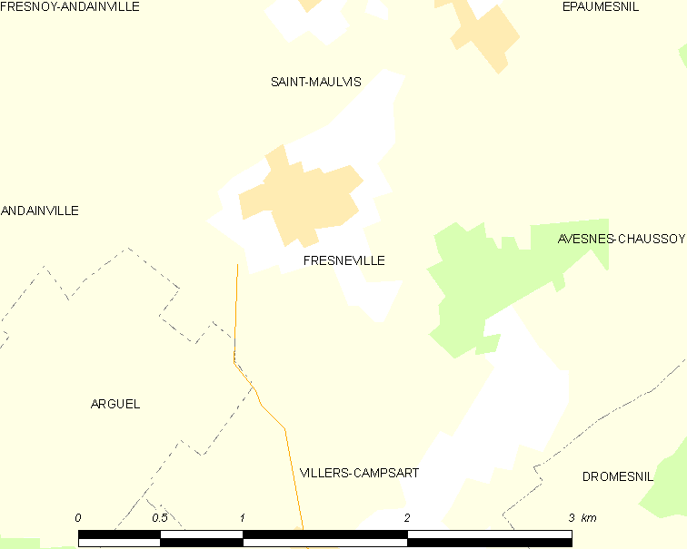 Map of French municipality Fresneville